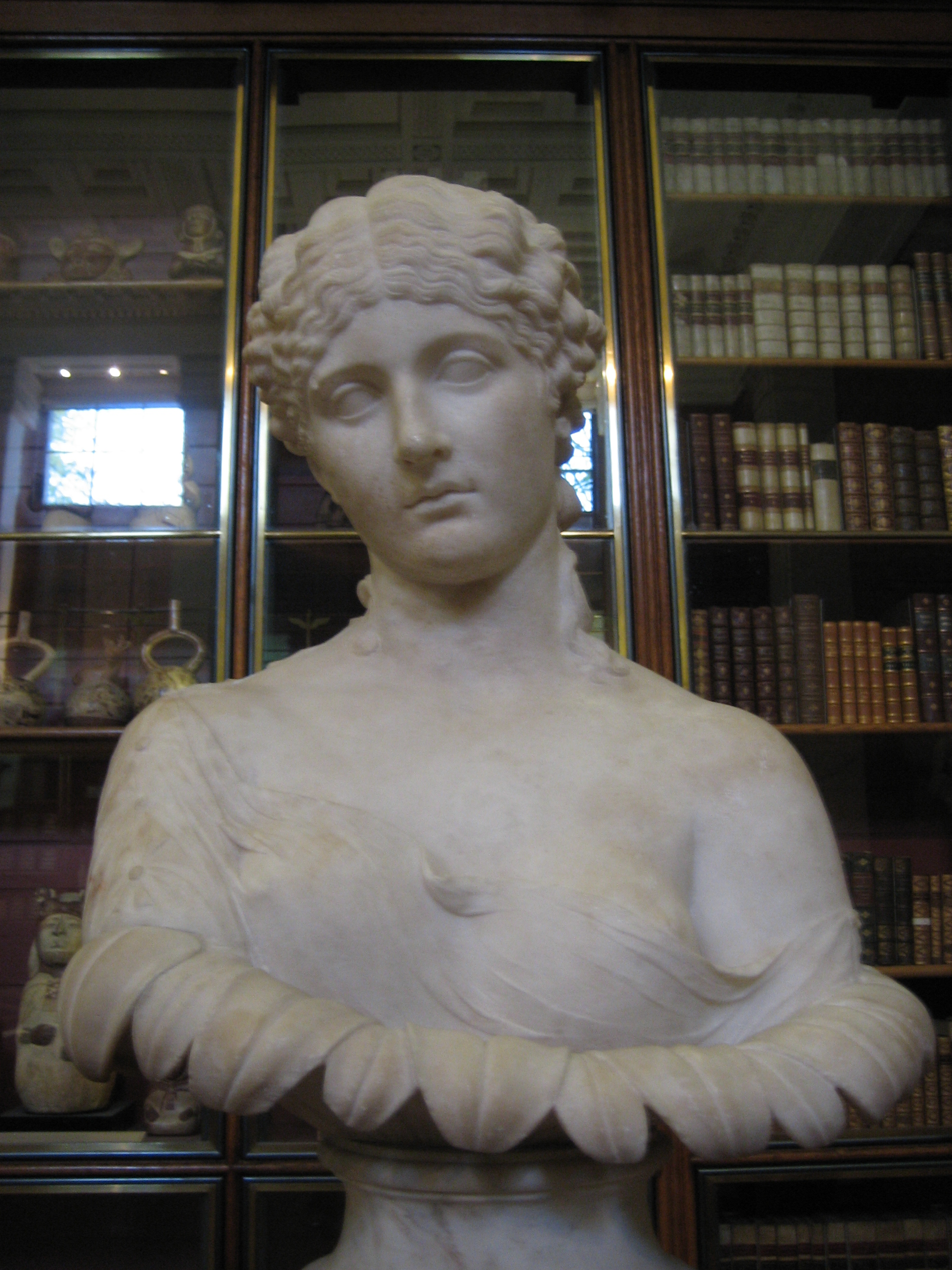 Charles Townley's Clytie.